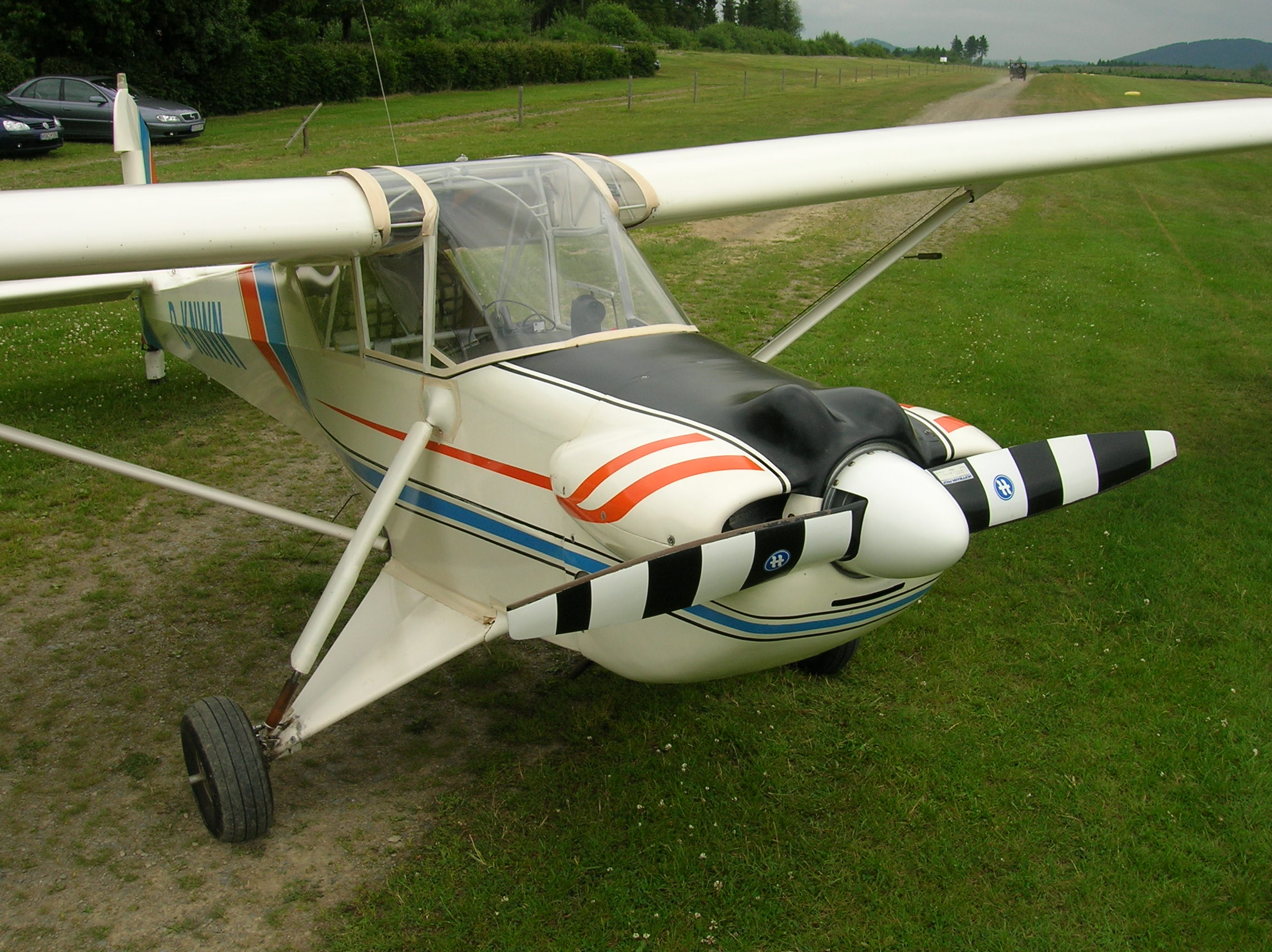 Motorlerche at german airfield Schmallenberg-Rennefeld (EDKR)